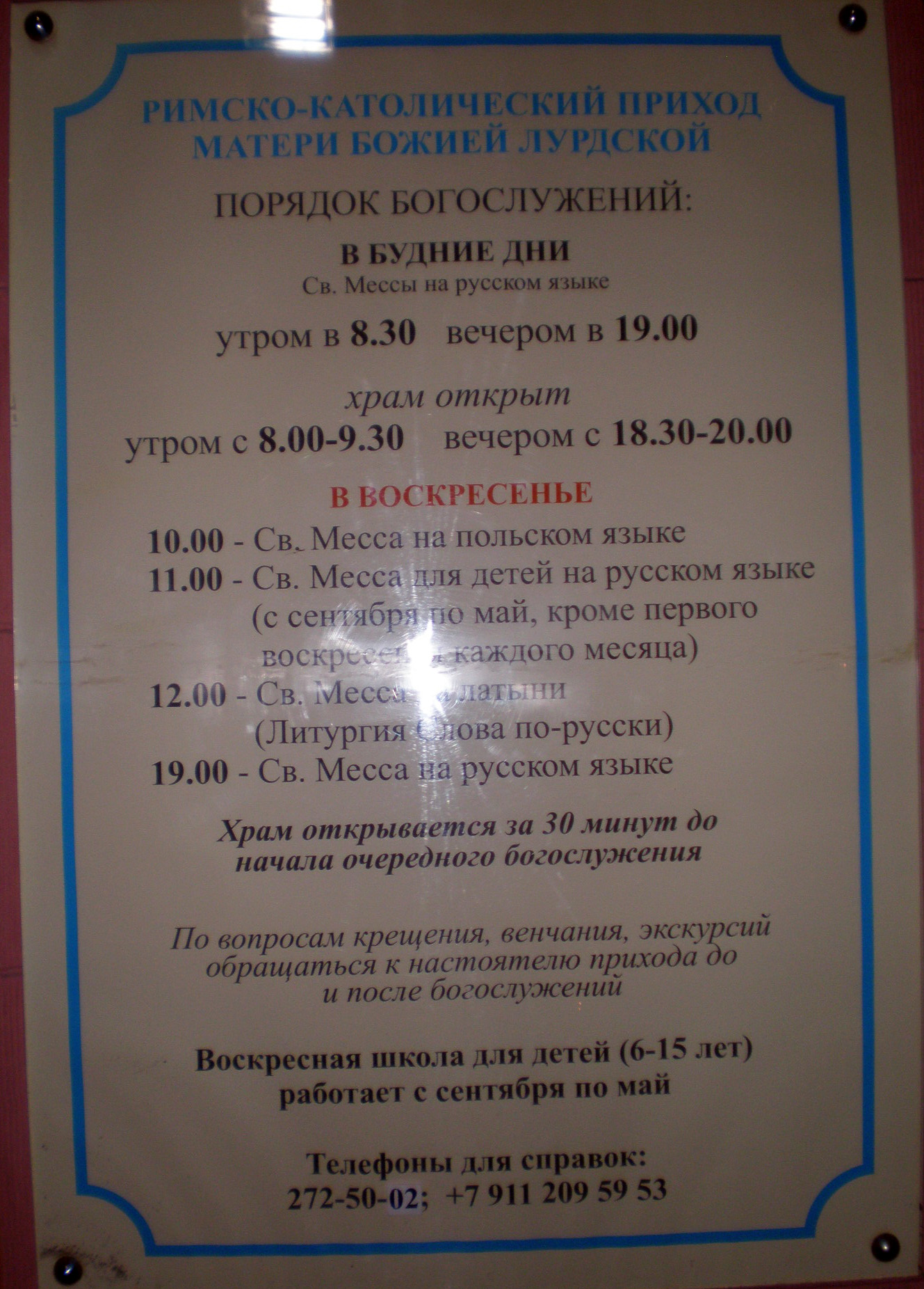 Timetables of business hours of Notre Dame de Lourdes (Church in St.Petersburg, Russia).